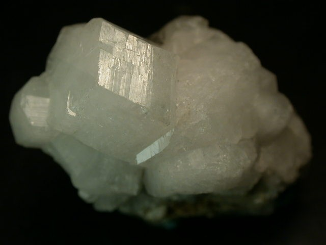 Harmotome - Locality: Bellsgrove Quarry (Strontian Barytes Mine; Middleshop mine), Strontian, North West Highlands (Argyllshire), Scotland, UK - A 2.8 by 2.4 cms group of crystals.